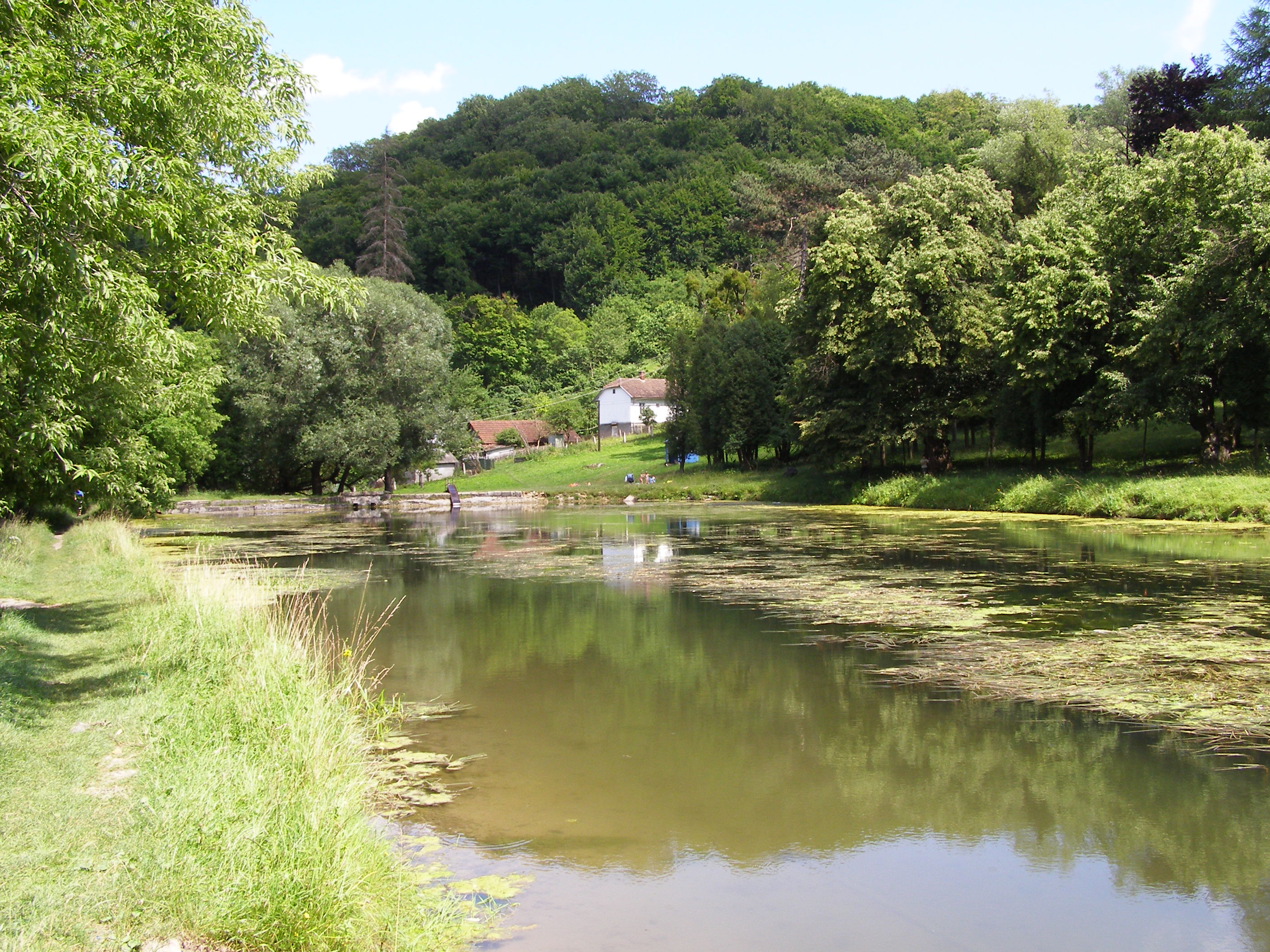 Berezhany Arboretum in Rai. Berezhany, Ternopil region, western Ukraine.